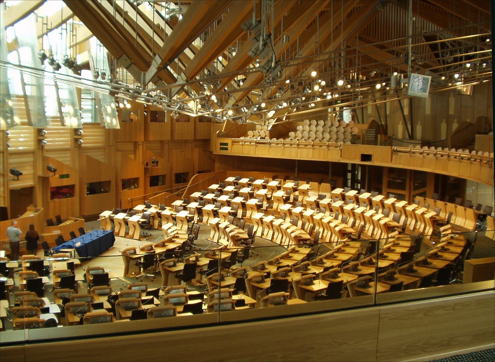 Debating chamber in Scottish Parliament building